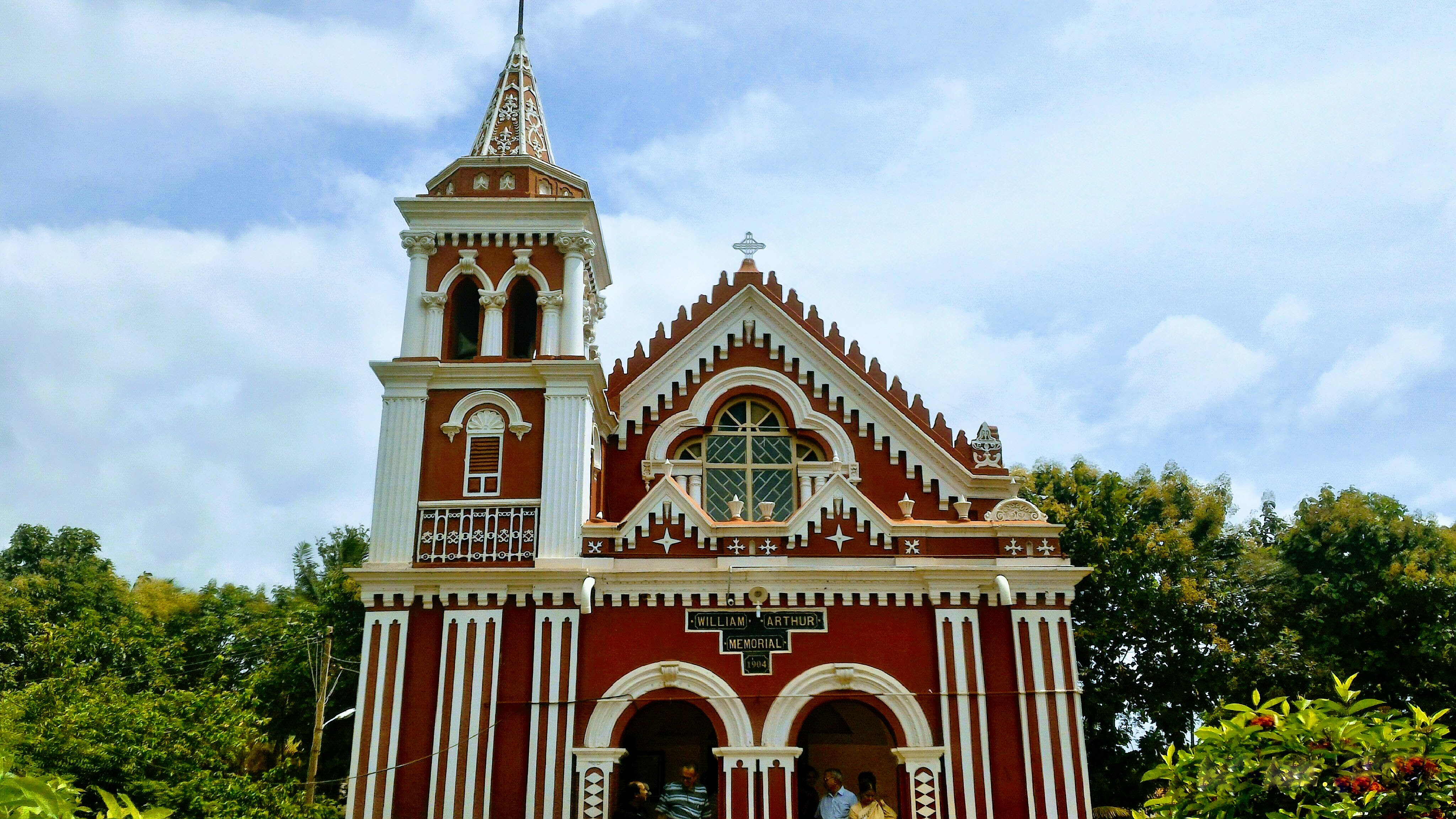 Prominent Church in Gubbi town built in 1904